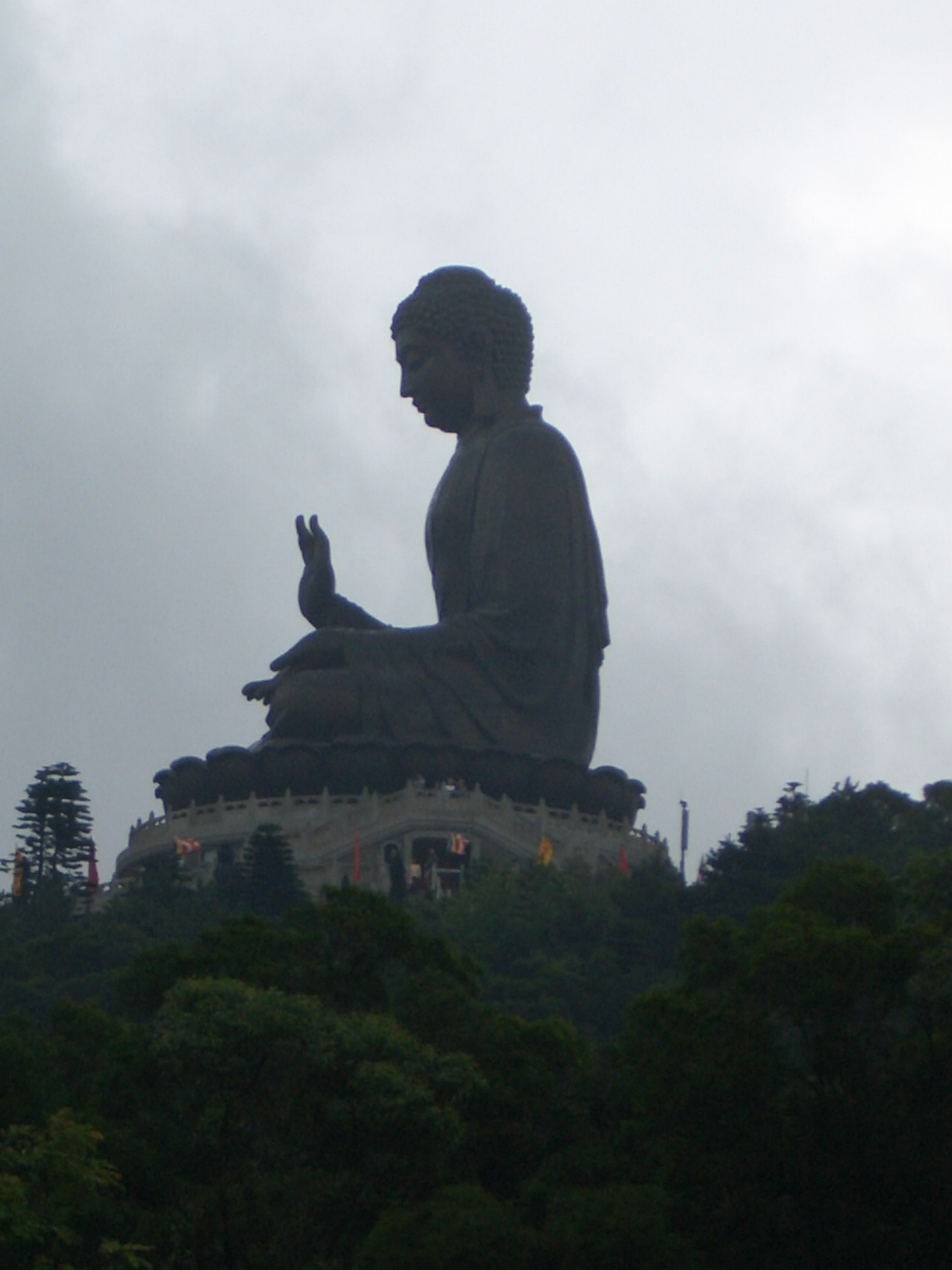 Glen Warren of Enlil Ninlil on wikipedia. Own photo.